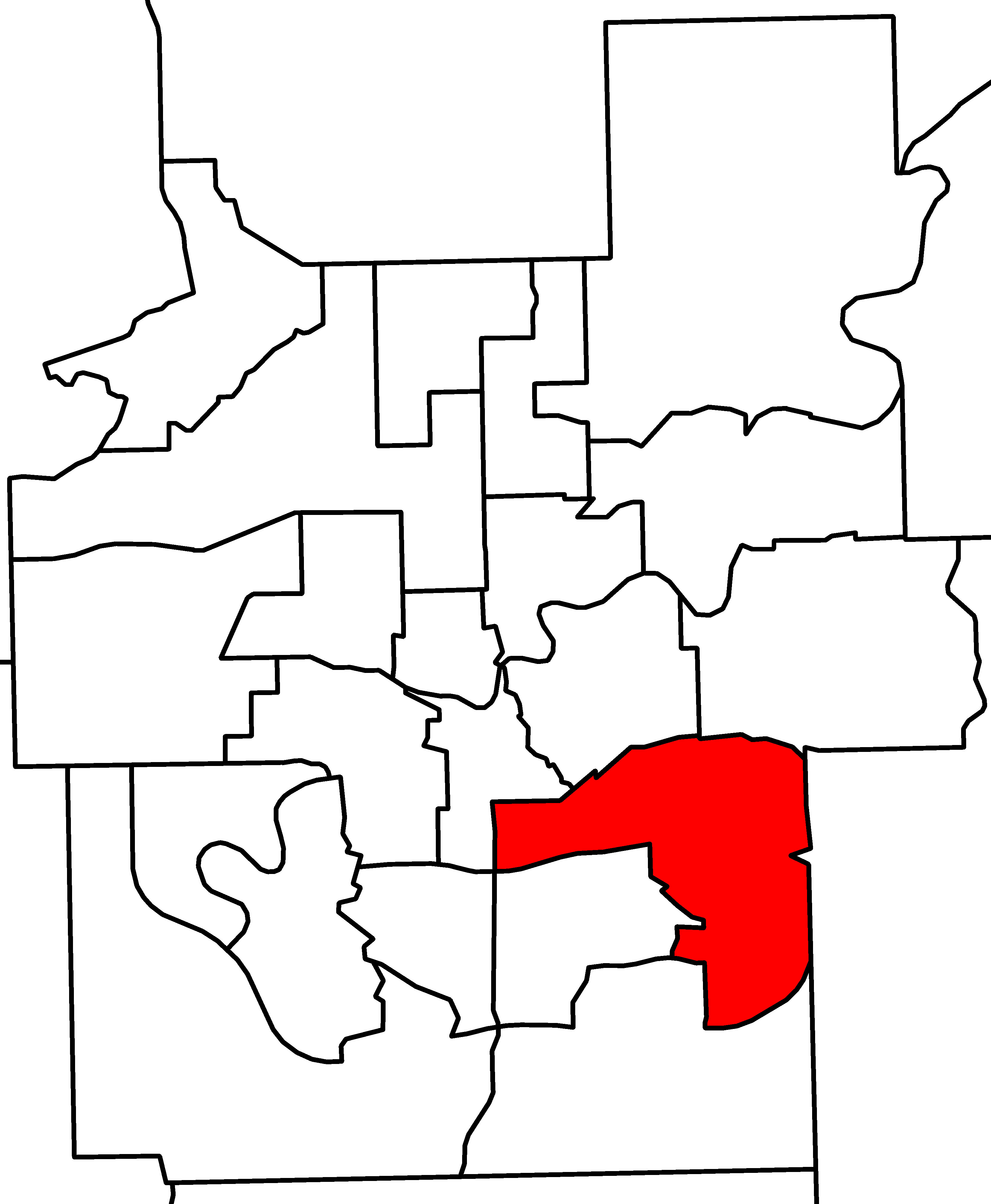 A map of Alberta provincial electoral districts, effective 2010, in the Edmonton area. Edmonton-Mill Creek is highlighted in red.